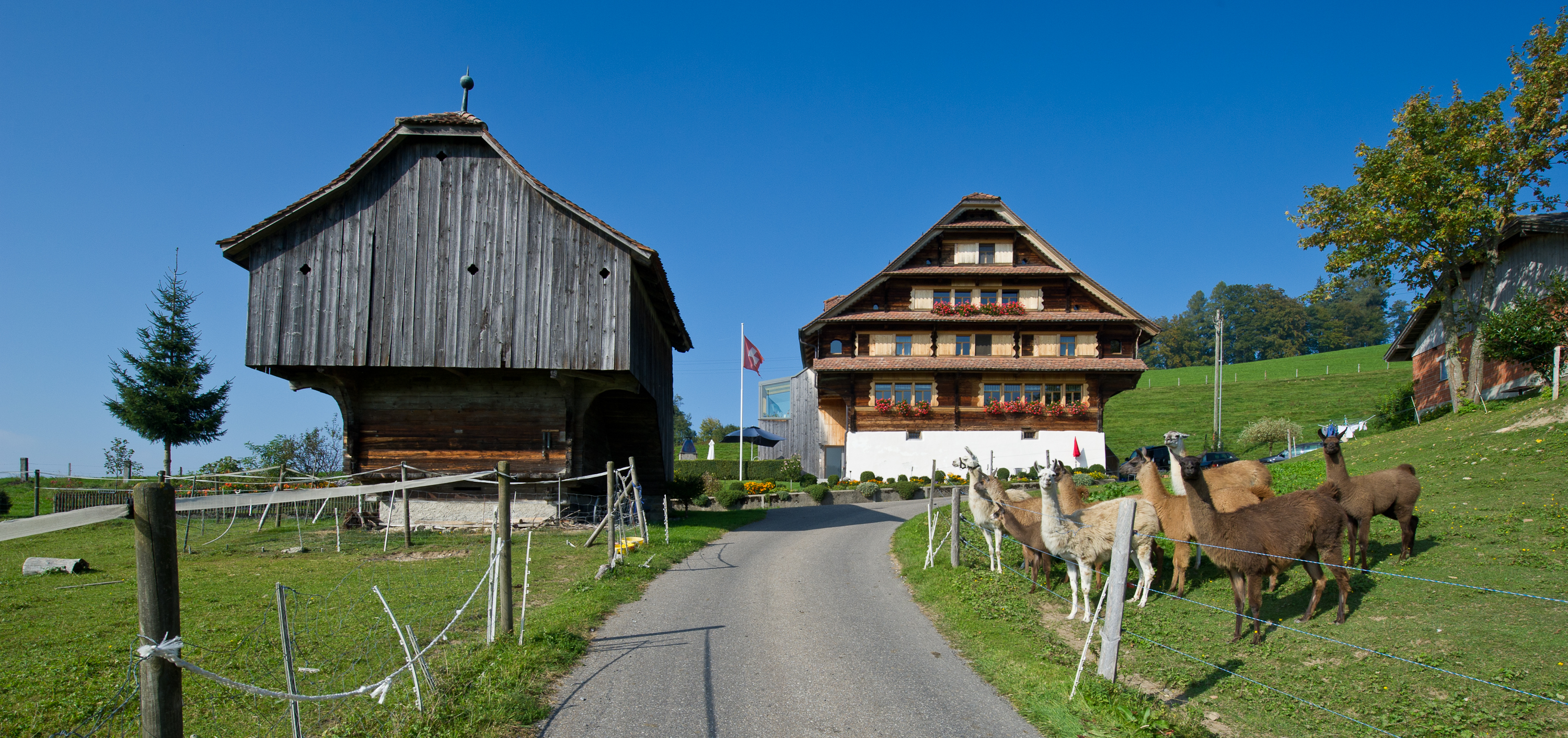 Scharmoos farm and lamas, Schwarzenberg, LU, Switzerland.